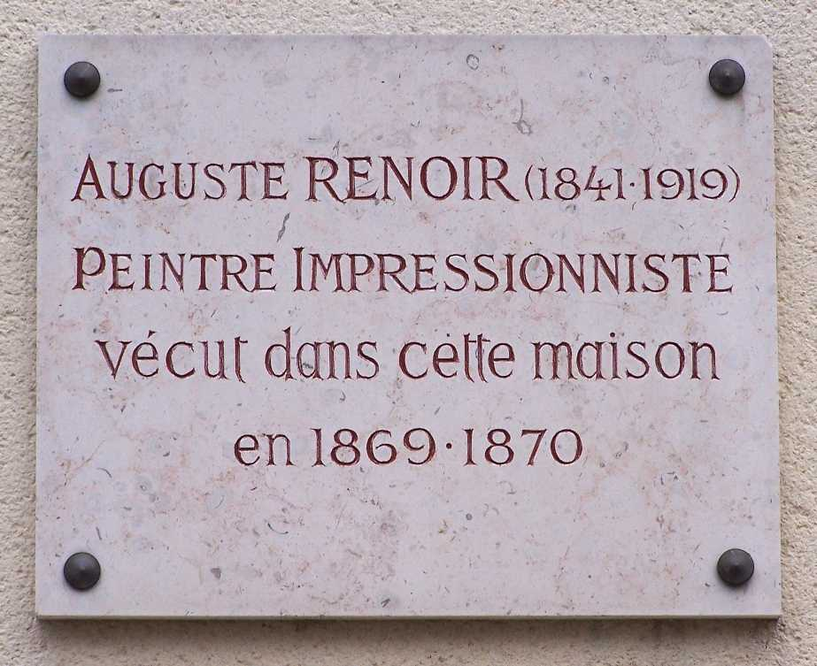 Commemorative sign for Pierre-Auguste Renoir at number 9 of the place Emile Dreux in the village of Voisins in Louveciennes (Yvelines, France)